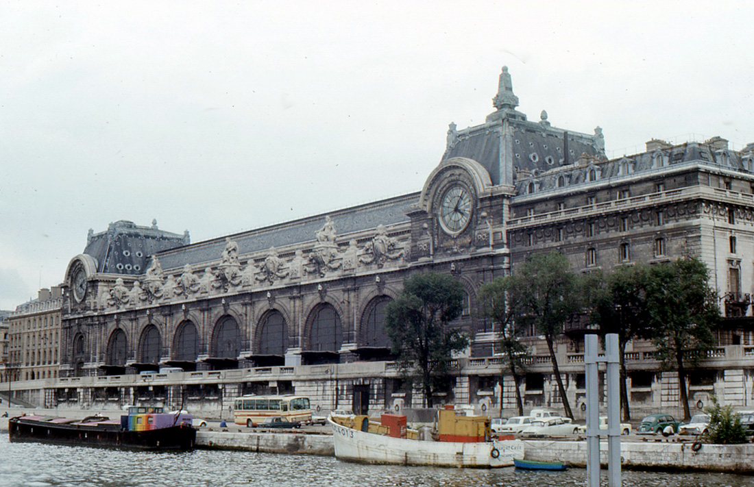 Musée d'Orsay